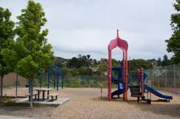 picture of humboldt park taken from humboldt street in richmond, california